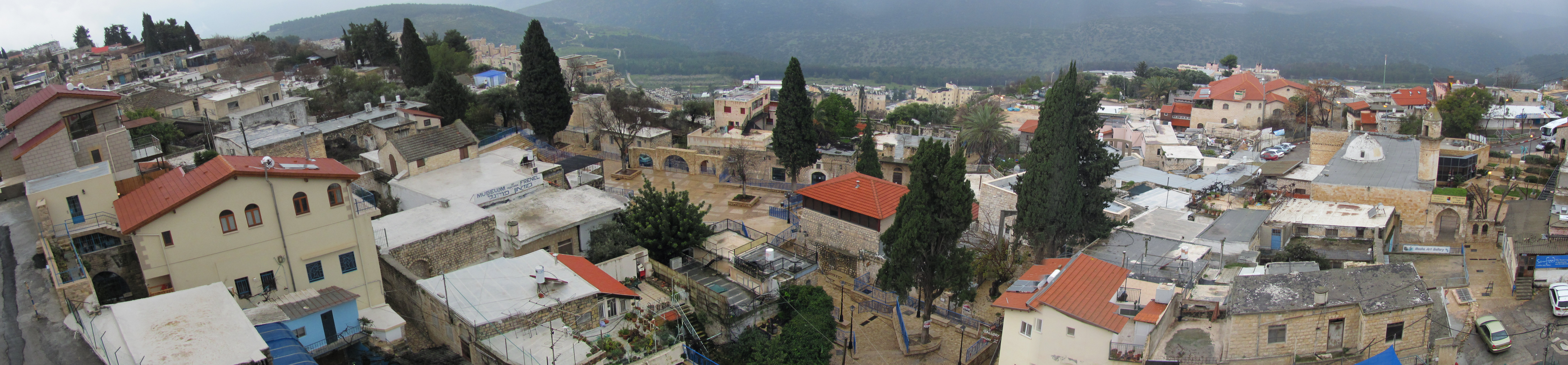 A penoramic view of Safed's artists' quarter.